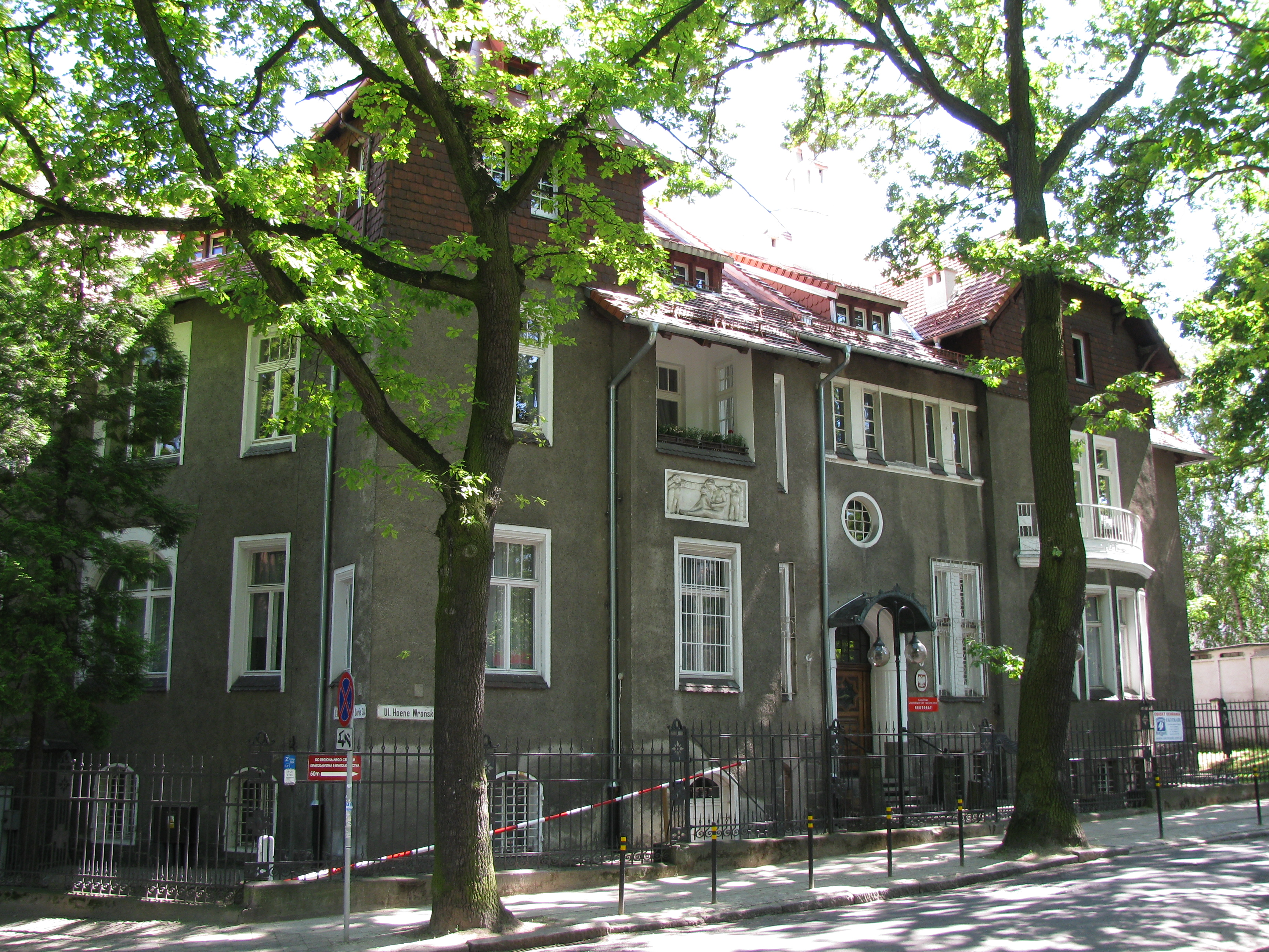 Curie-Sklodowskiej 3a Street, Gdańsk.